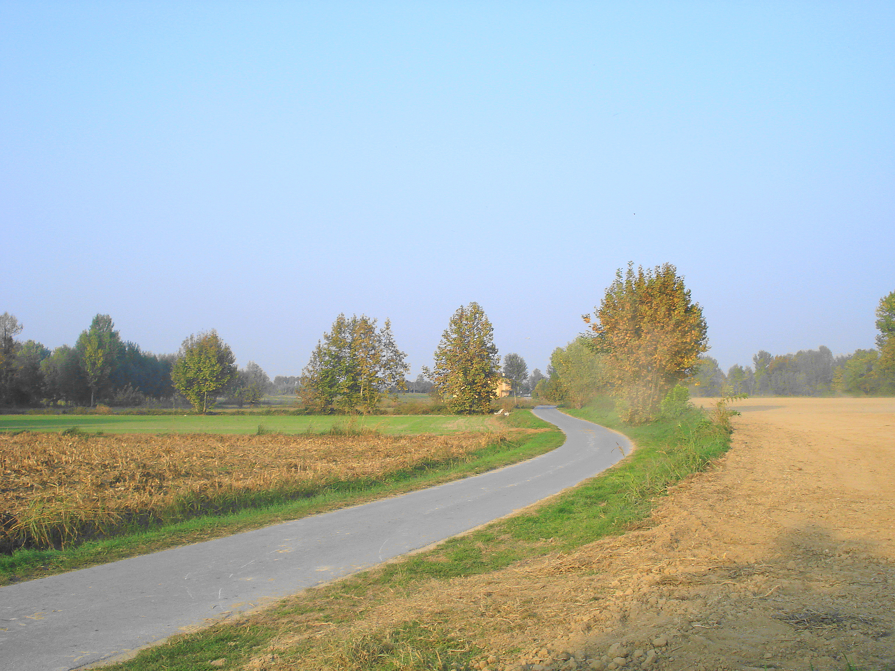 the wiew of a road at Gottolengo on autumn